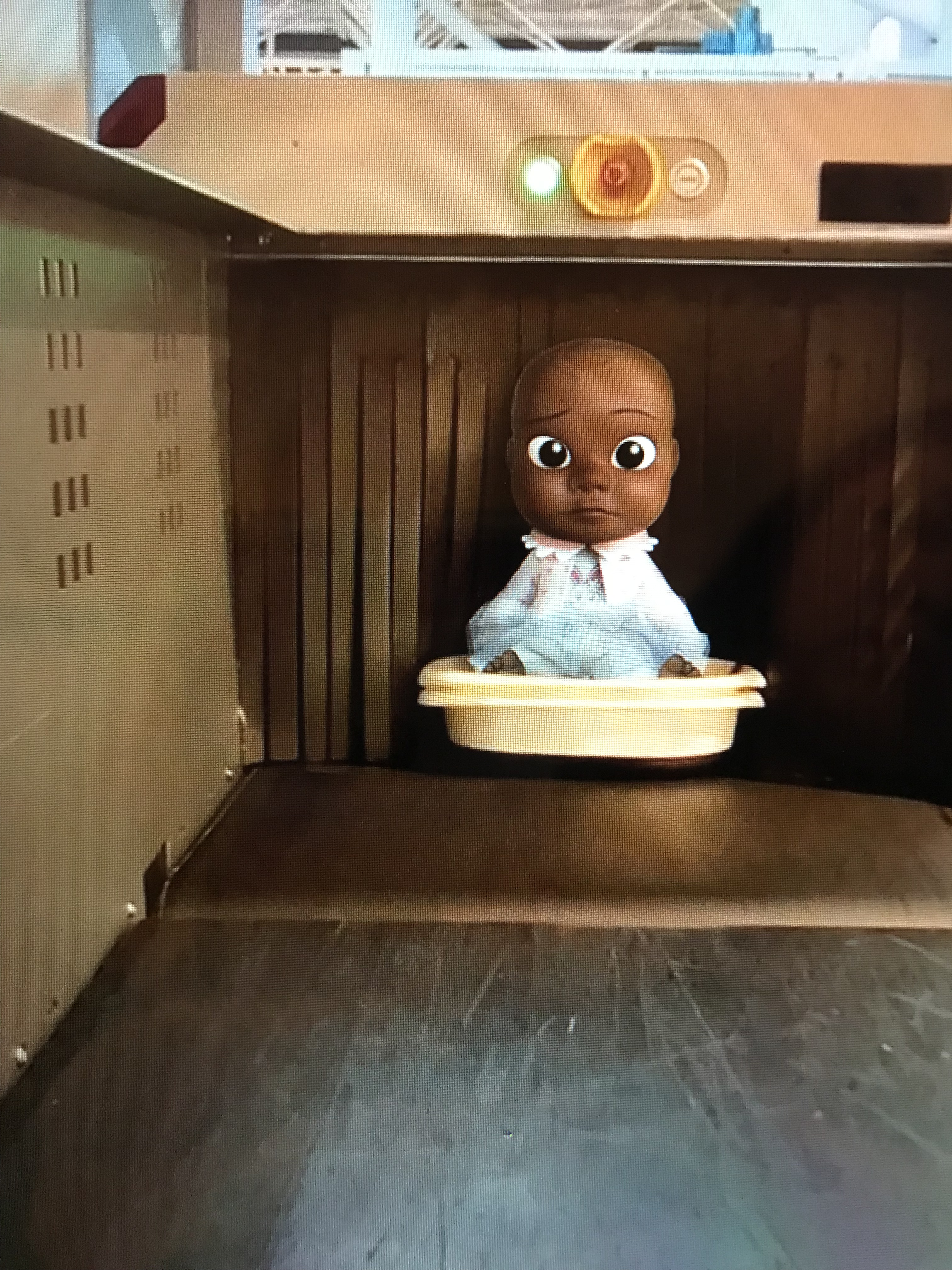 Qai Qai going through airport security